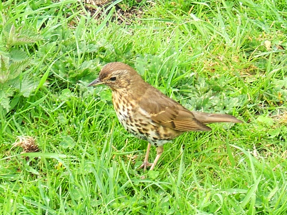 Song Thrush Turdus philomelos, Holy Island, Northumberland, UK